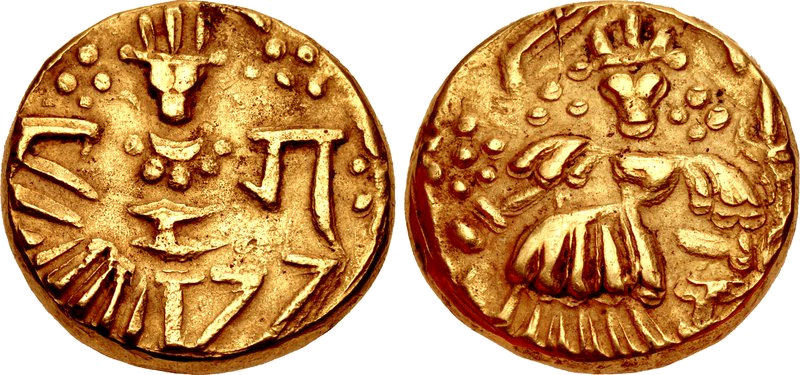 King Jagadeva of the Vuppadevas in Kashmir 1199-1213. AV Stater (18mm, 10.38 g, 12h). Stylized figure of Toramana standing facing; ja in Btahmi to left; ga in Brahmi to right / Stylized figure of goddess standing facing; de[va] in Brahmi to right.